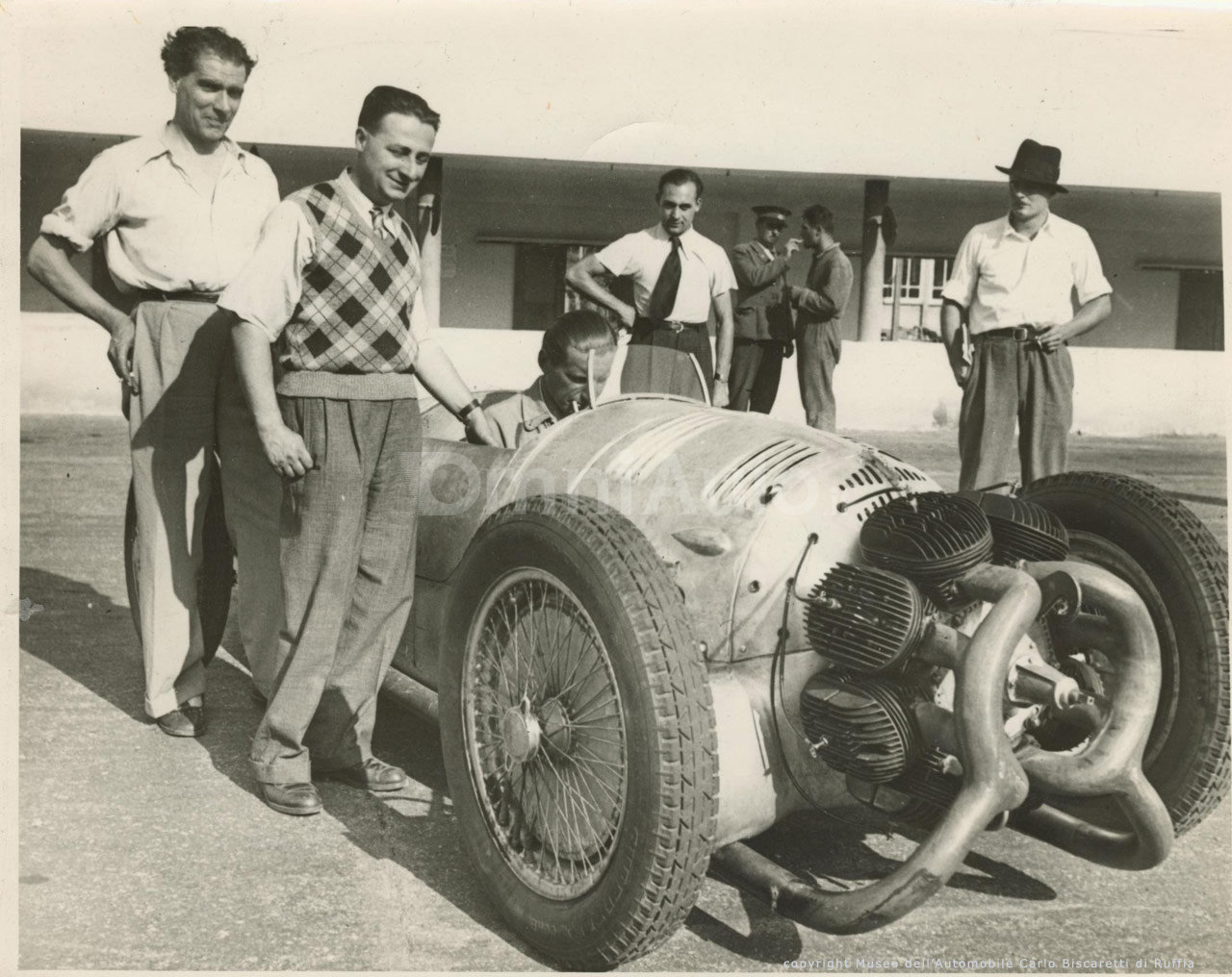 The Trosso-Monaco (ca. 1935). The people are (from left): Unknown, Augusto Monaci (in checkered sweater), Carlo Felice Trossi (in car) and four unknowns.